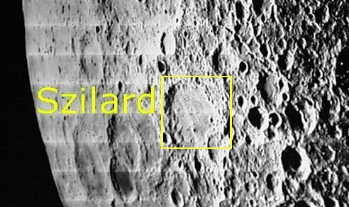 Photo Number V-181-M. Image of lunar impact crater Szilard, 34.0Â°N/105.7Â°E, named for physicist Leo Szilard. This image has been edited to make it suitable for use in an article.